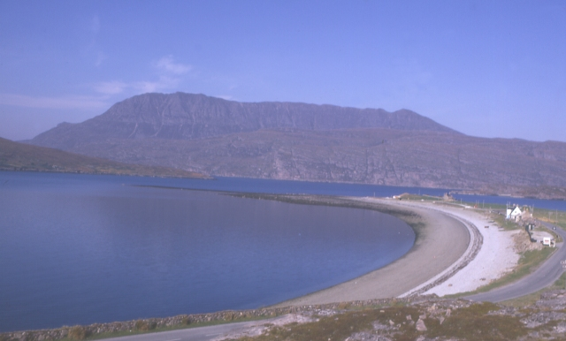 Ardmair Bay. Beinn Mor Coigeach dominates the view of this bay of shingle on Loch Kanaird.